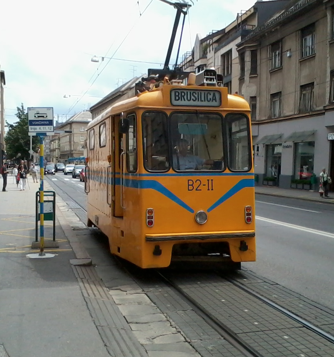 Track grinding tram in Zagreb